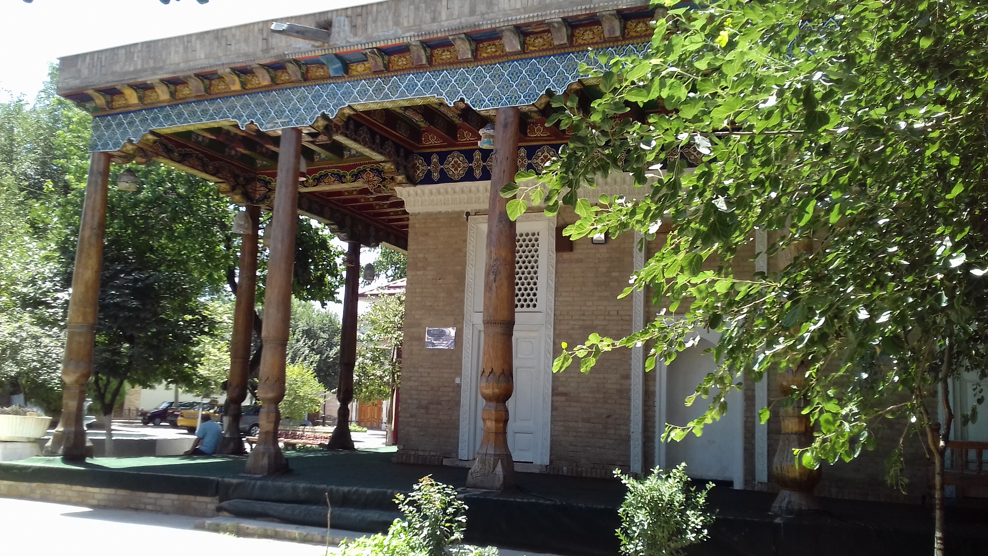 Dahbedi Complex in Samarkand (Uzbekistan)